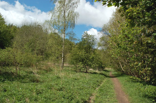 The Old Galashiels-Peebles Railway Line. This old line is now a footpath from the town to the Peebles road near Torwoodlee. This open area in the woodland will be beautiful in a few weeks' time, when the hawthorn blossom should be in full bloom.